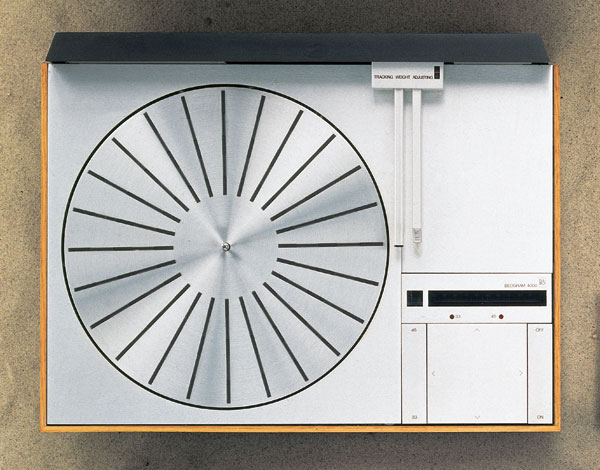 B&O Beogram 4000 designed by Jacob Jensen, 1972